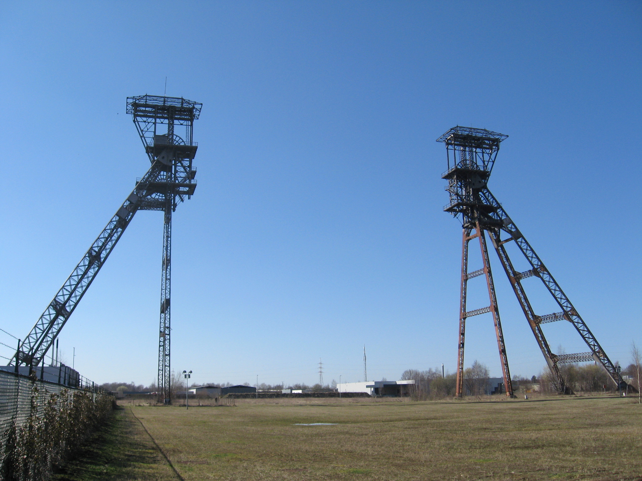 Winding towers of the former coal mine of Houthalen